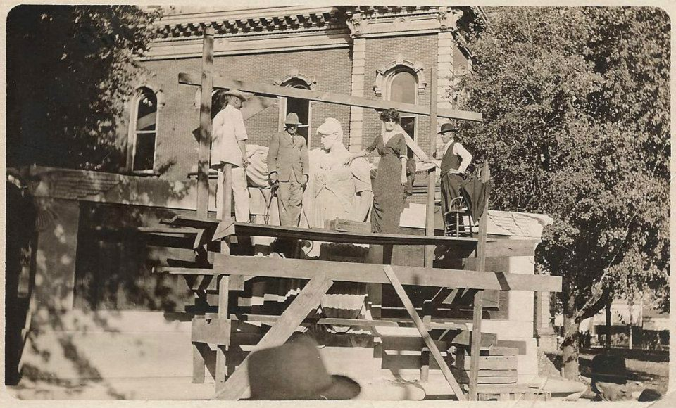 The model poses with the sculpture she posed for. The Peace Monument, Decatur, Indiana, ca. 1913.